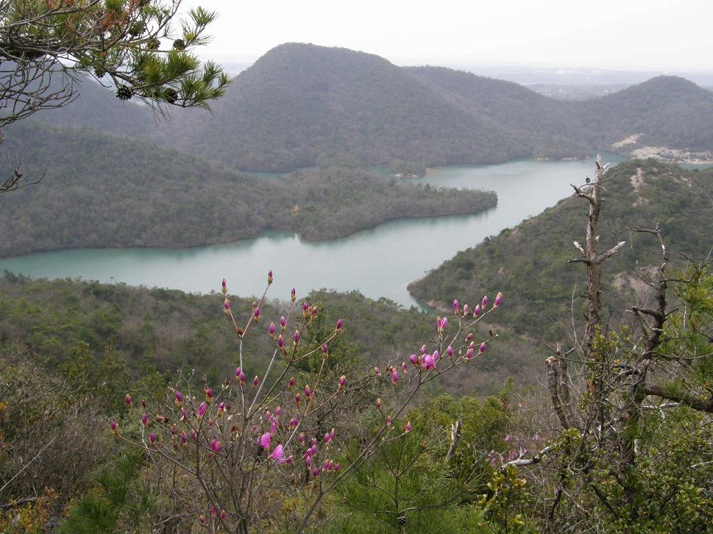 syouwa-ike